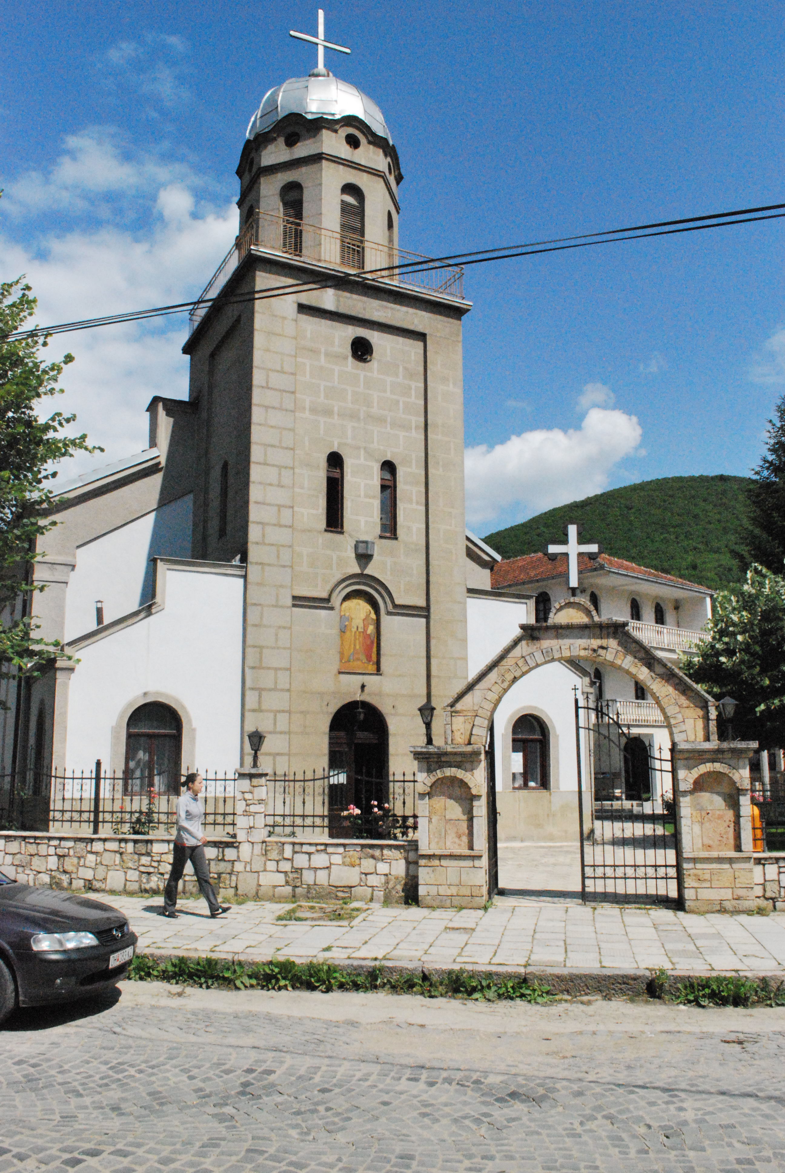 Sts. Peter and Paul Church in Kičevo, Macedonia